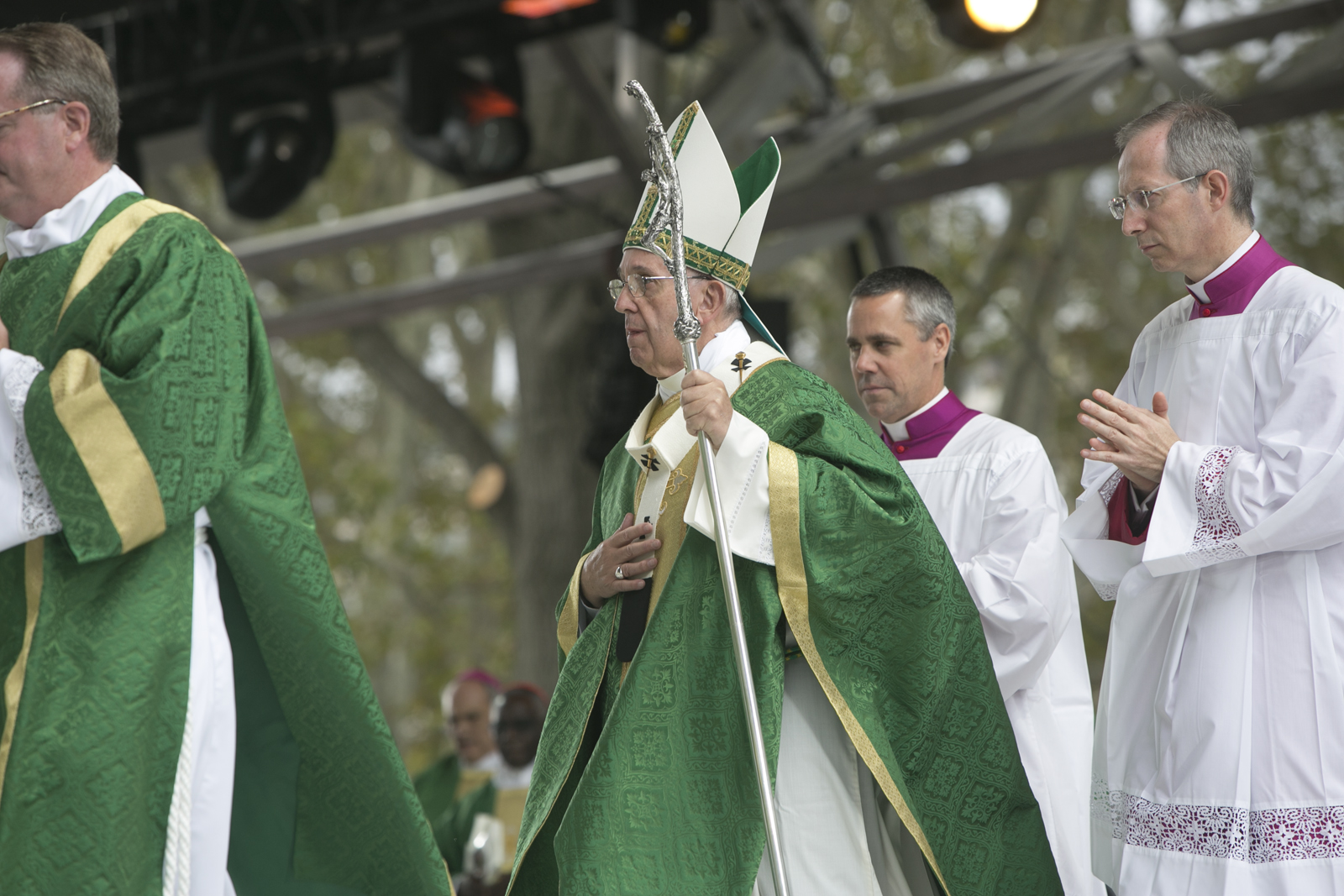 September 27, 2015 Philadelphia, PA